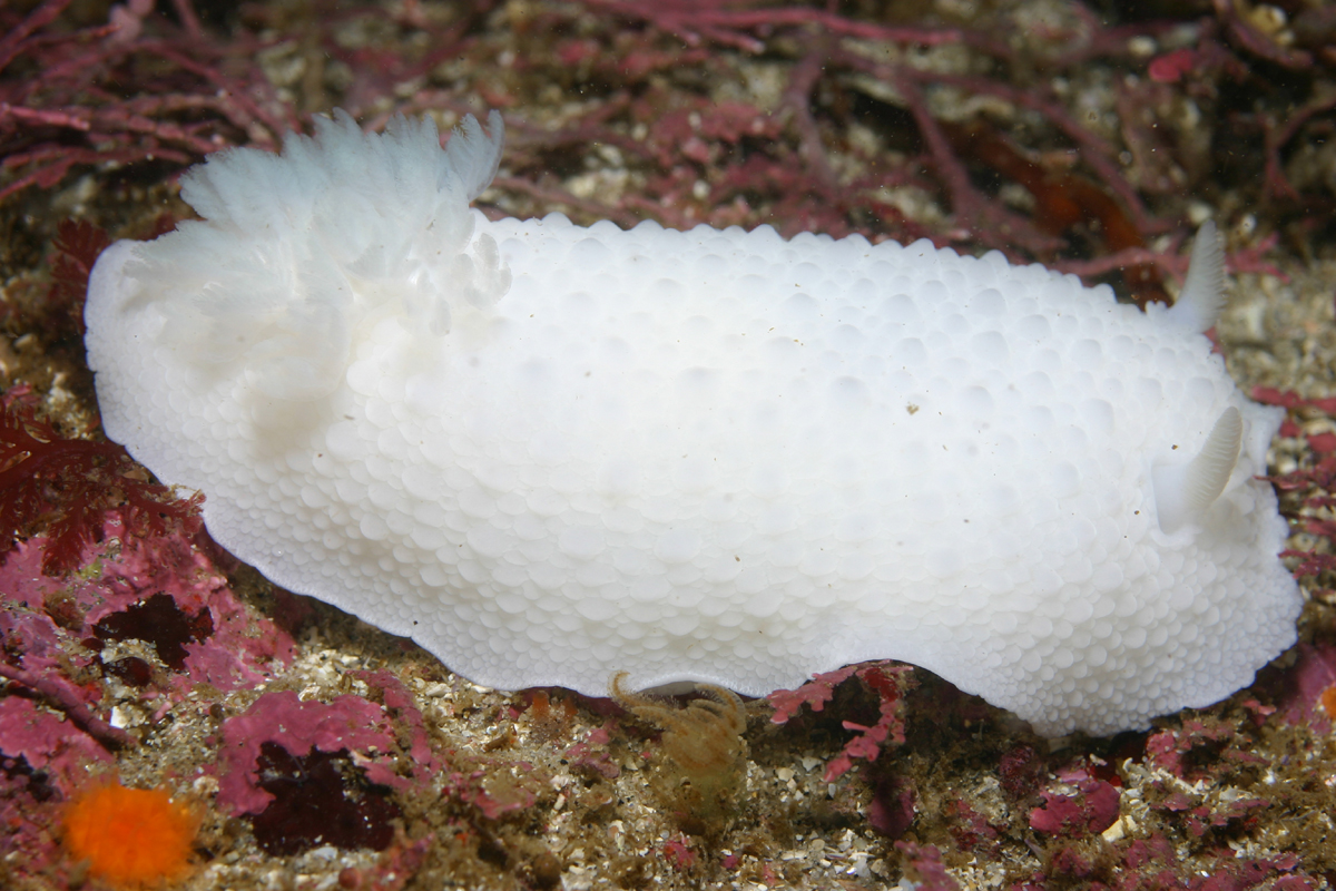 This dorid nudibranch used to be called Archidoris odhneri, but is now Doris odhneri following a change by Dave Behrens in his 2004 revision of sea slug taxa.